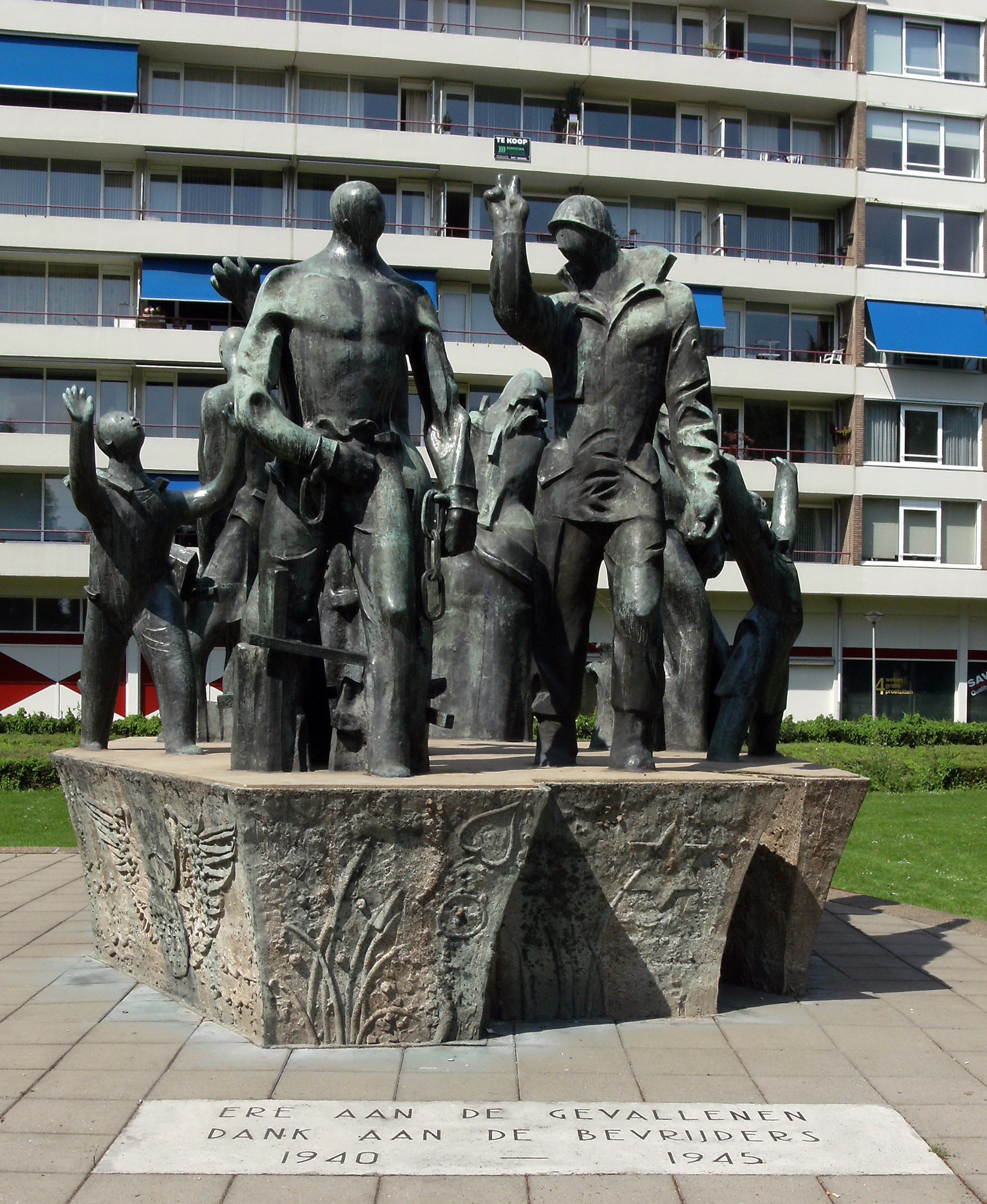 "Bevrijdingsmonument"; "Monument for the liberation", by dutch artist Charles Eyck